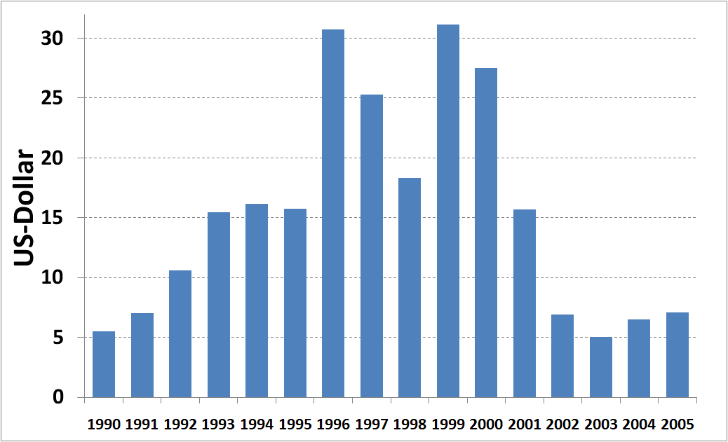 Annual Investment per capita in Honduras in water supply and sanitation (1990-2005)